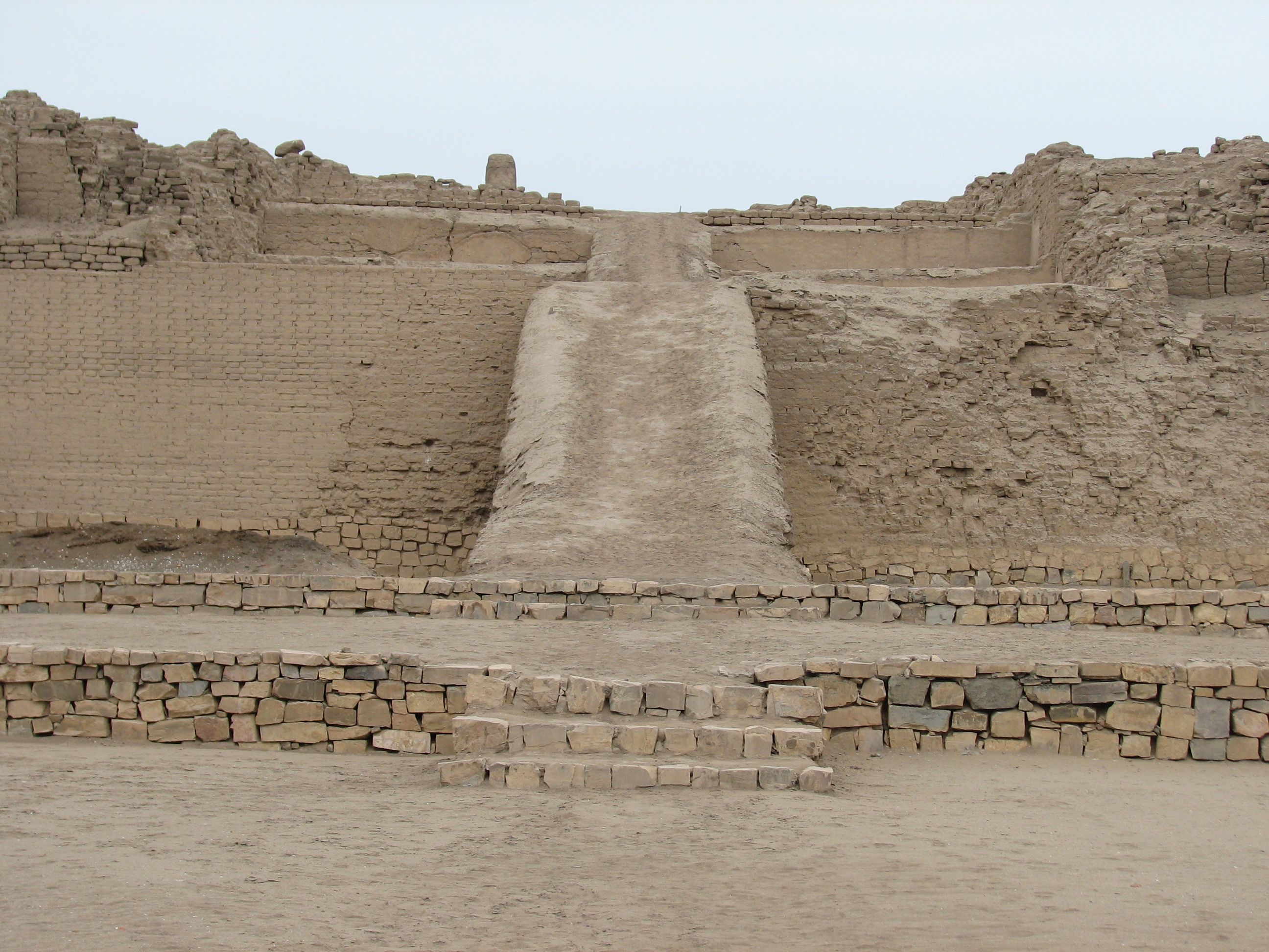 Pachacamac archaeological site in Peru